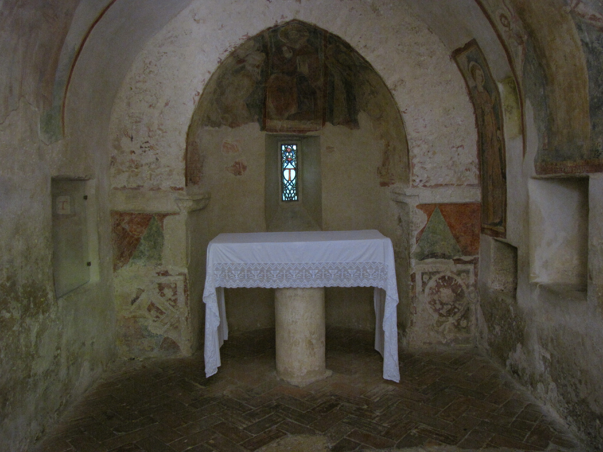 Franciscan sanctuary of Fonte Colombo in Rieti (Lazio, Italy)